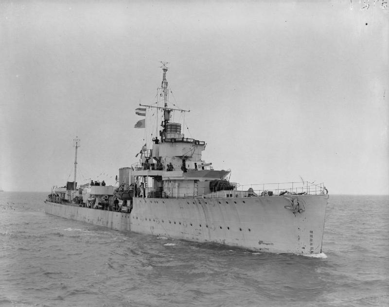 The Royal Navy during the Second World War HMS VANQUISHER underway, at sea off Portsmouth.